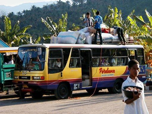 In Ende, the most used transport in Flores.